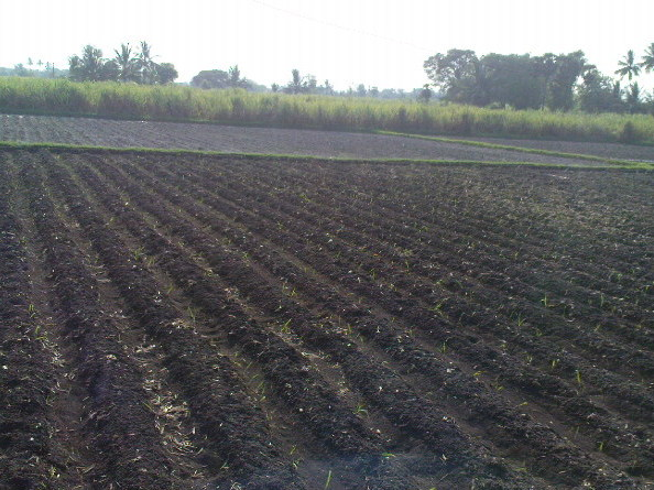 K.Pudur Village Places